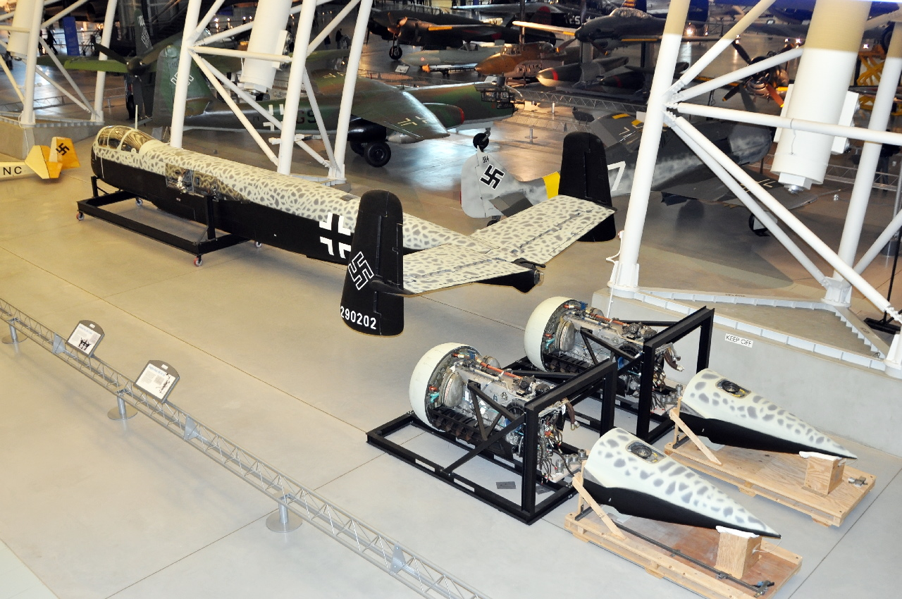 He 219 A-2 preserved at the Steven F. Udvar-Hazy Center.